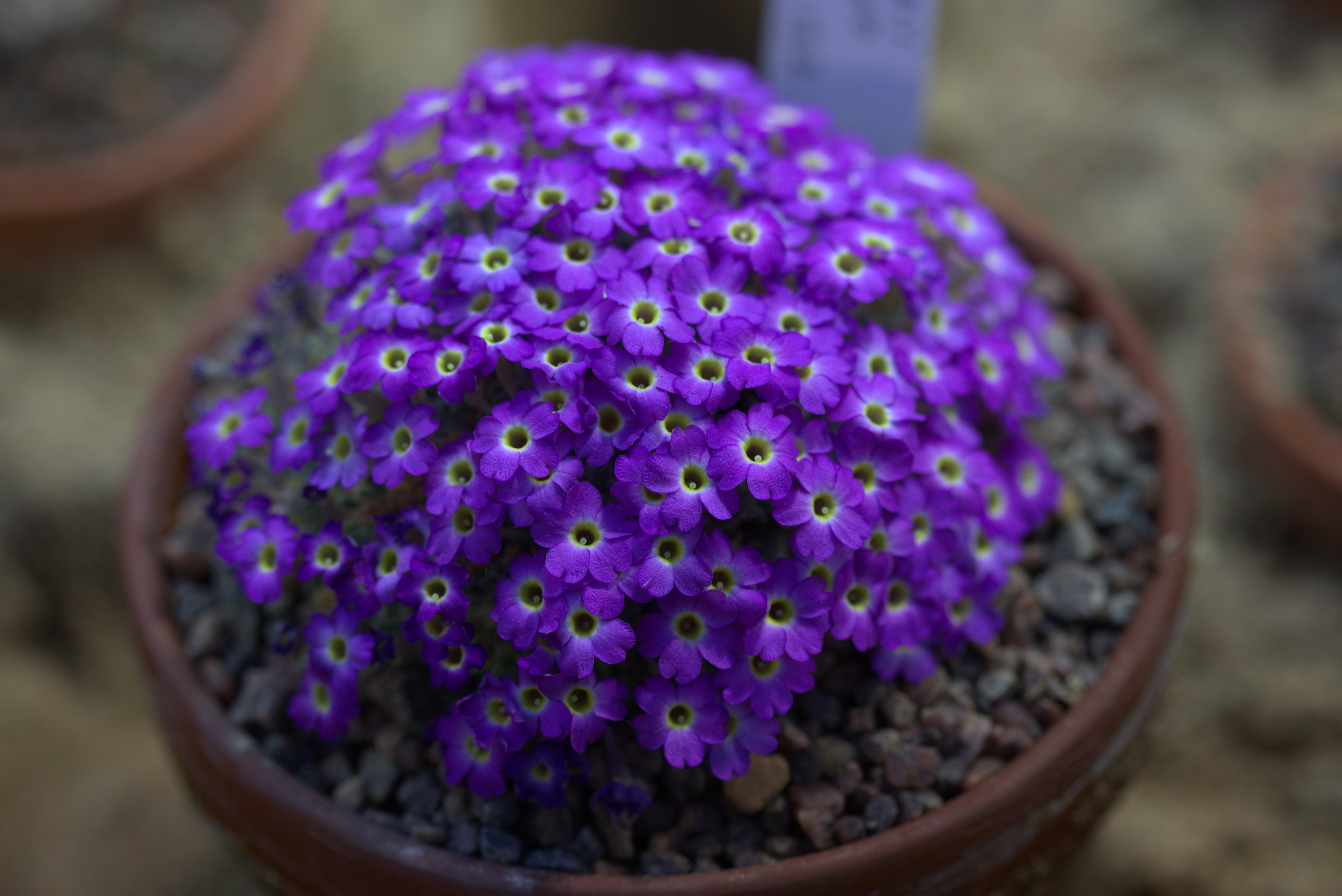 Dionysia archibaldii 'Tora' at Gothenburg Botanical Garden 2015. Plant id: 2002-2060; T42137